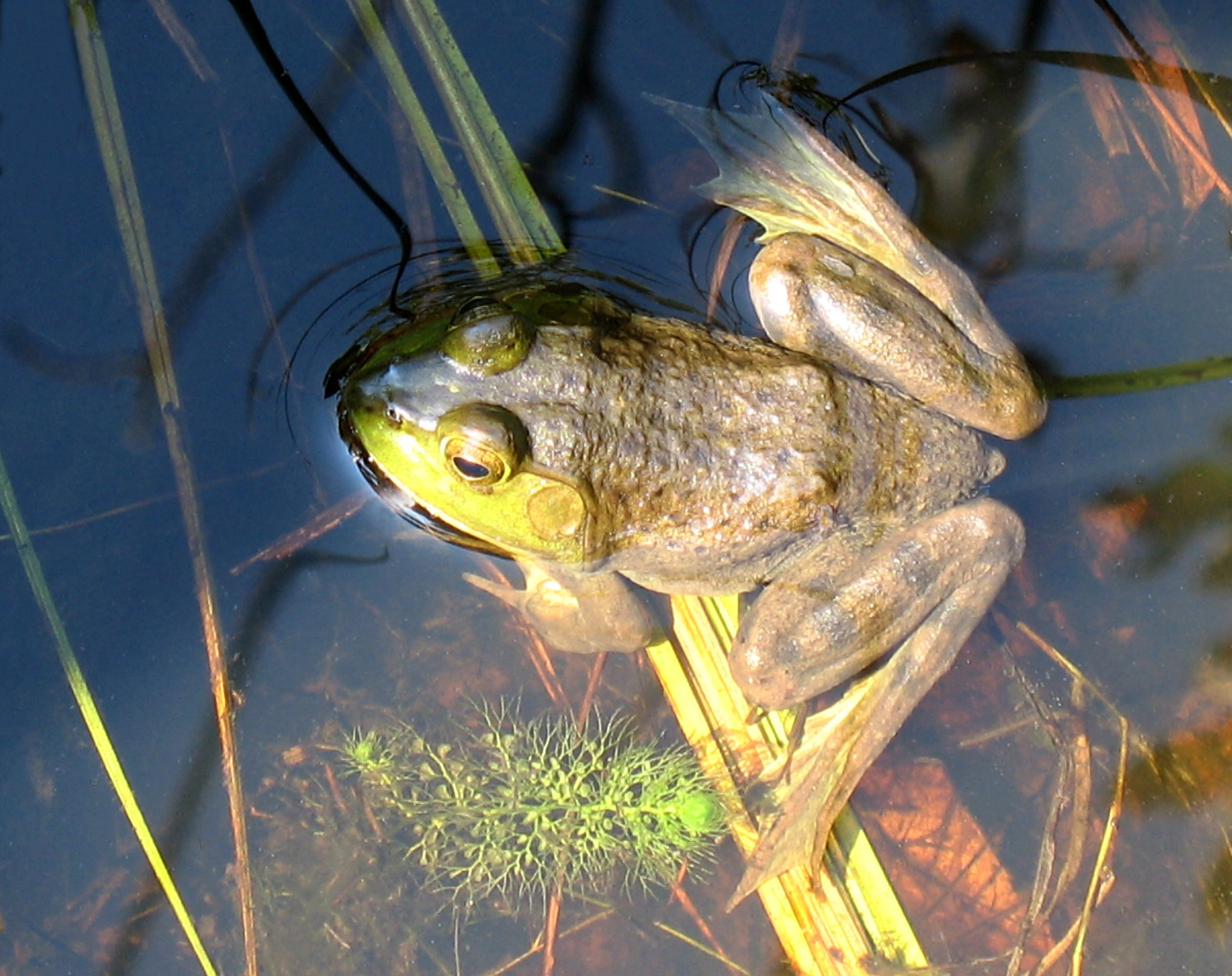 Bullfrog, Réserve naturelle des Marais-du-Nord, Quebec, Canada